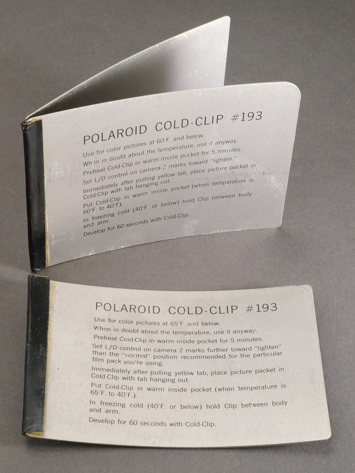 Reliable tool for development at temperatures below 18 ° C